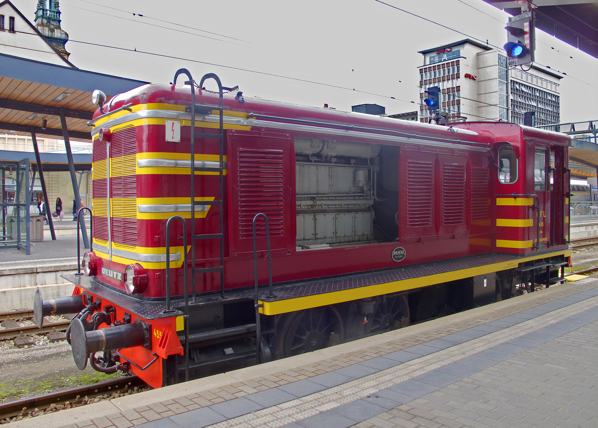 CFL 455 in the Luxembourg-City station